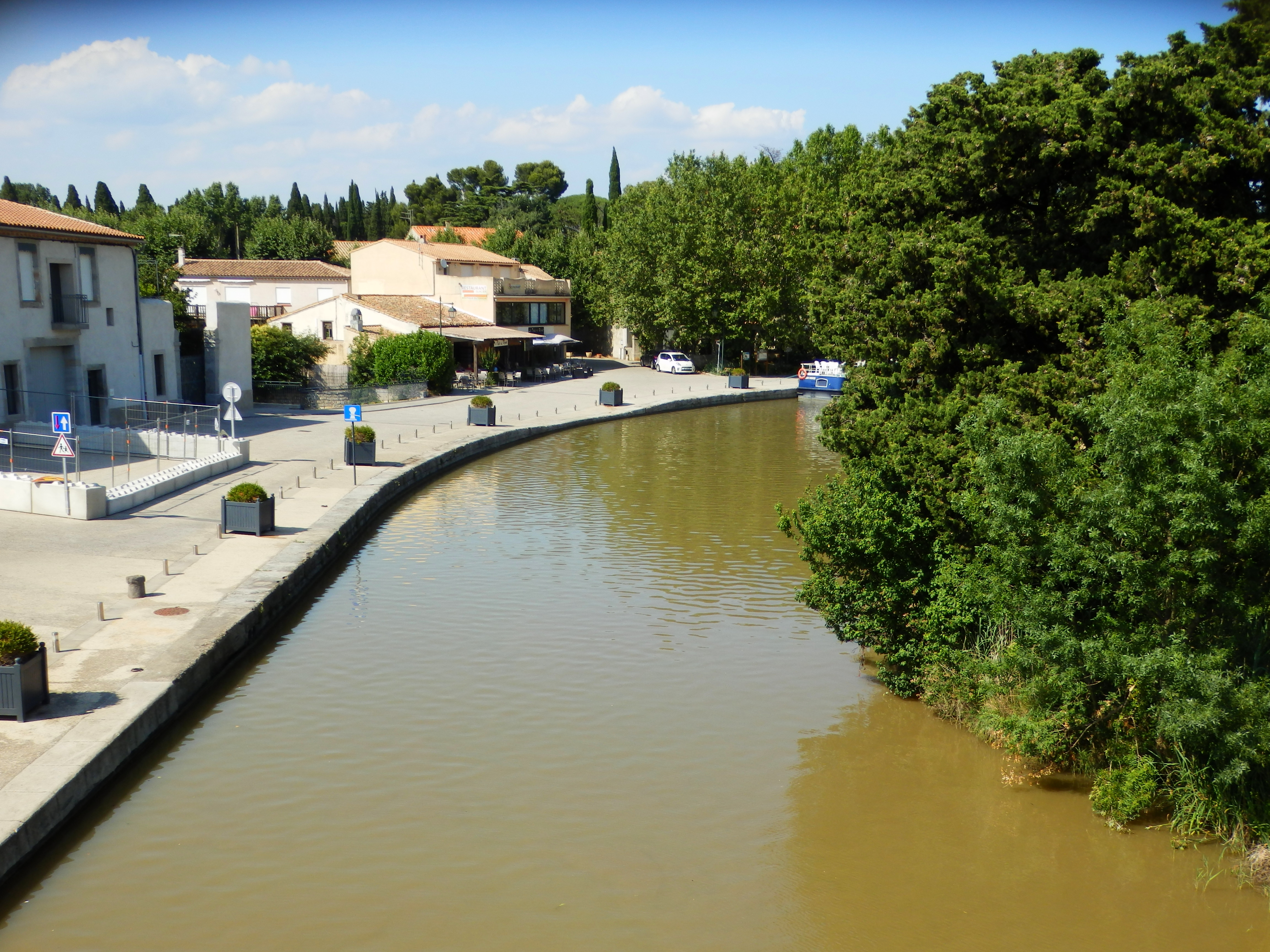 Canal du Midi in La Redorte, Aude, France in June 2018